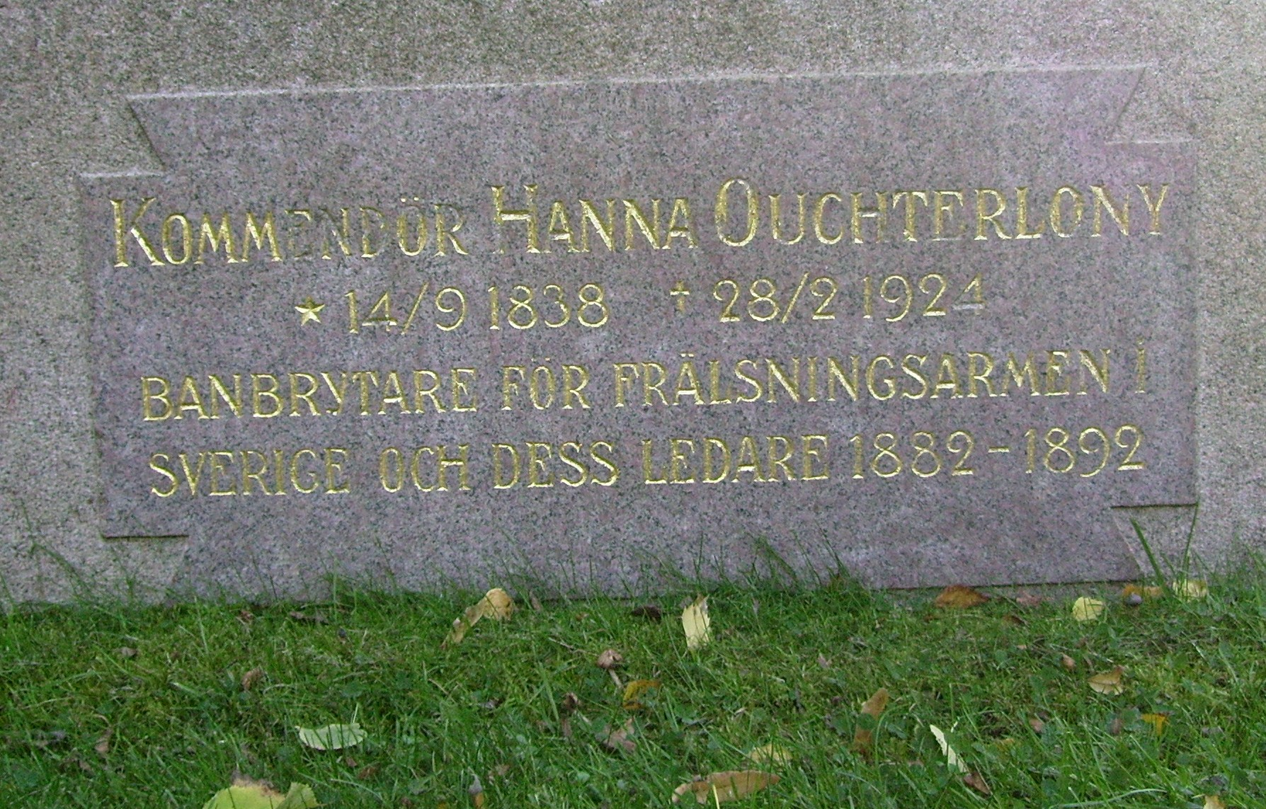 Picture of Hanna Ouchterlony' grave in Salvation army's grave at Norra begravningsplatsen in Solna